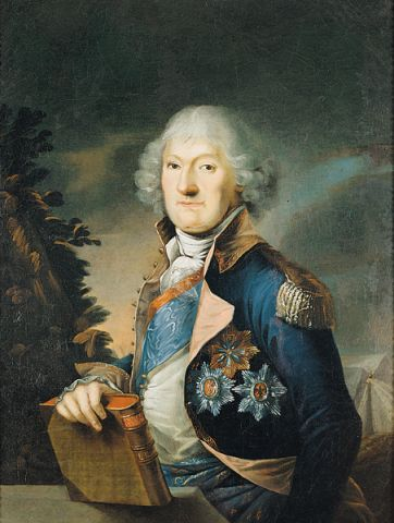 Portrait of Michał Kazimierz Ogiński (1730-1800)